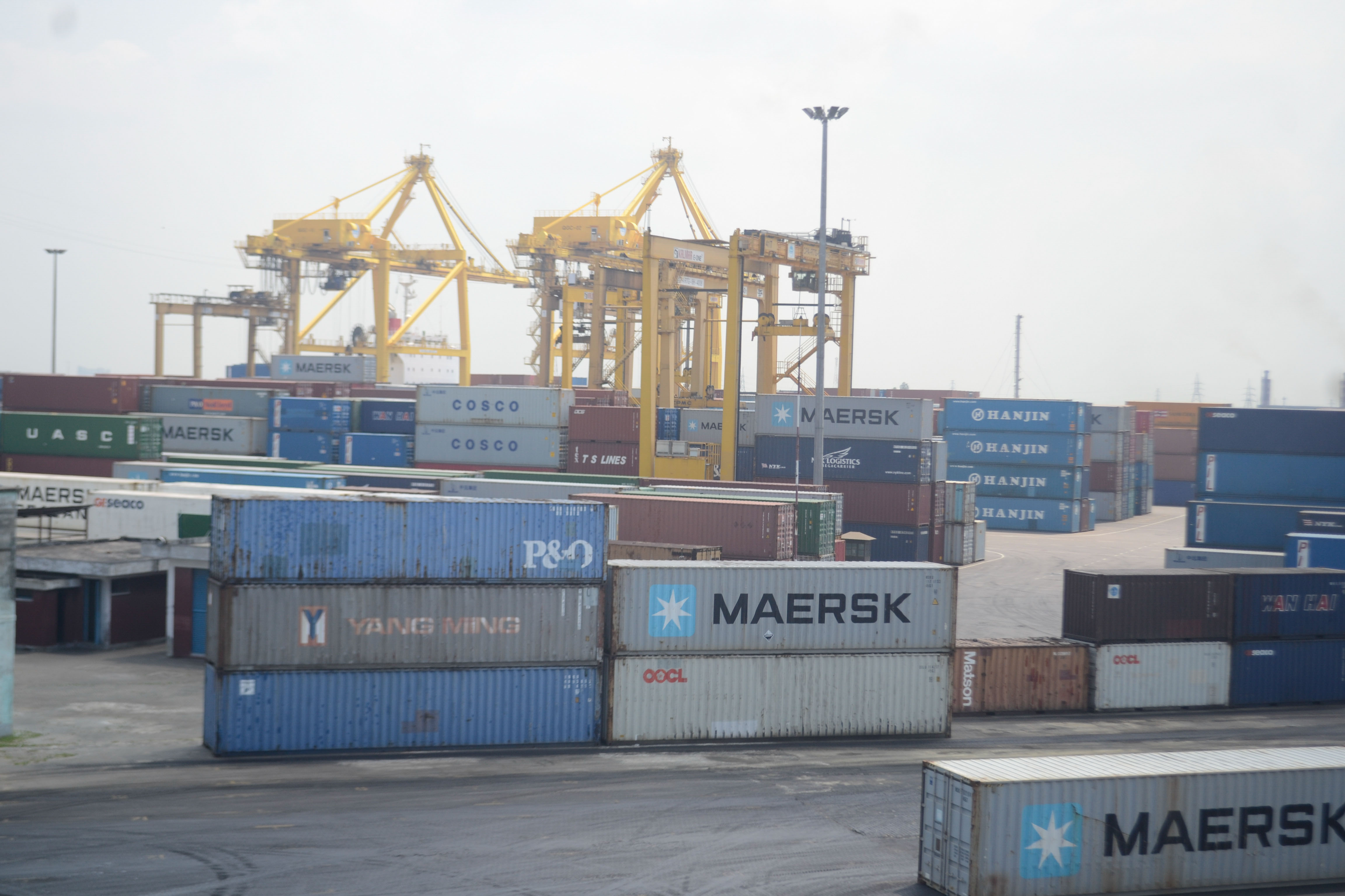 Stacking Intermodal container in Port of Chittagong